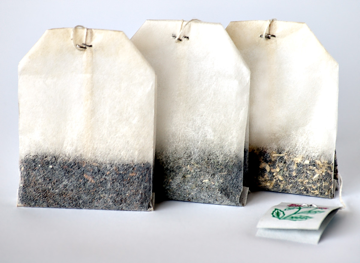 This image shows three different tea bags.